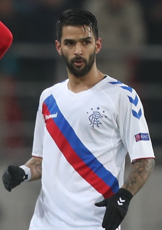 Daniel Candeias with Rangers in an Europa League game against Spartak Moscow.